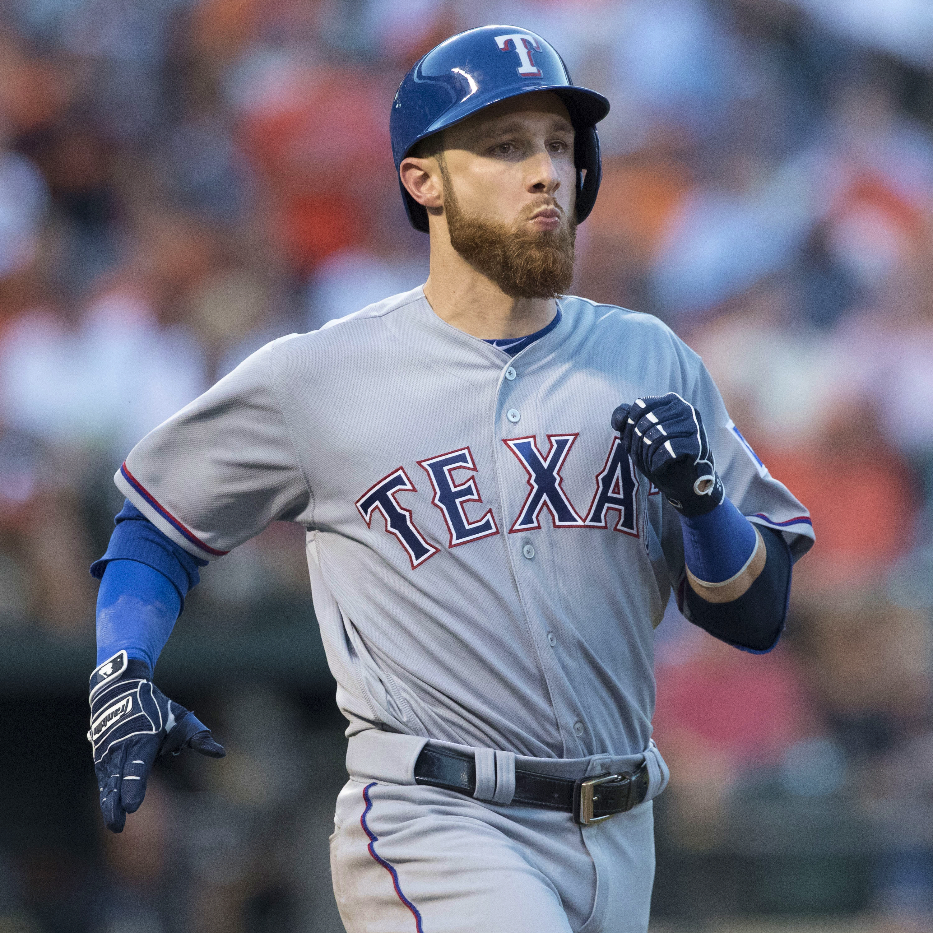 Jonathan Lucroy